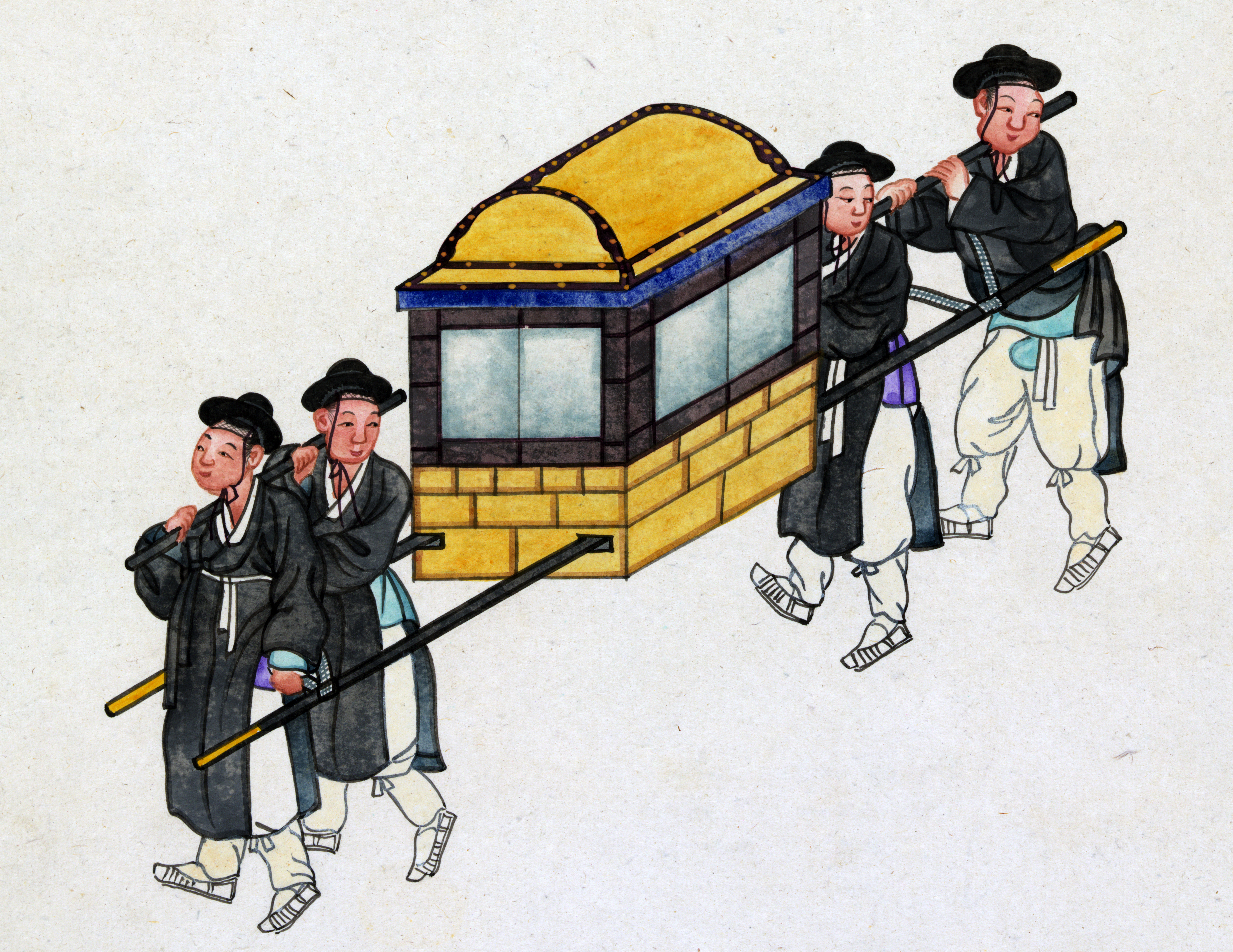 "Closed chair of upper classes of nobles - used by men & women" "Drawing shows four porters, two in front and two in the rear, holding the long poles through an enclosed palanquin." watercolor